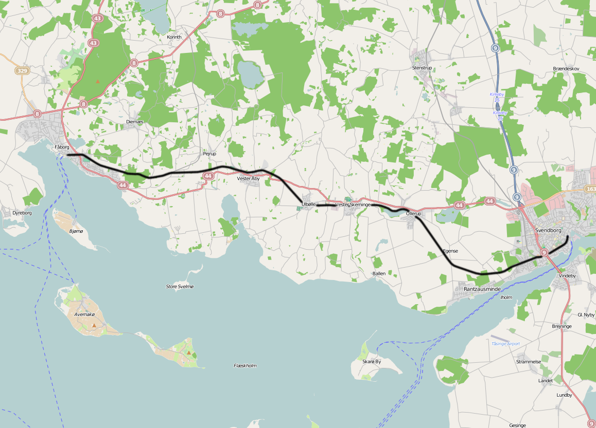 Railway line Svendborg - Faaborg